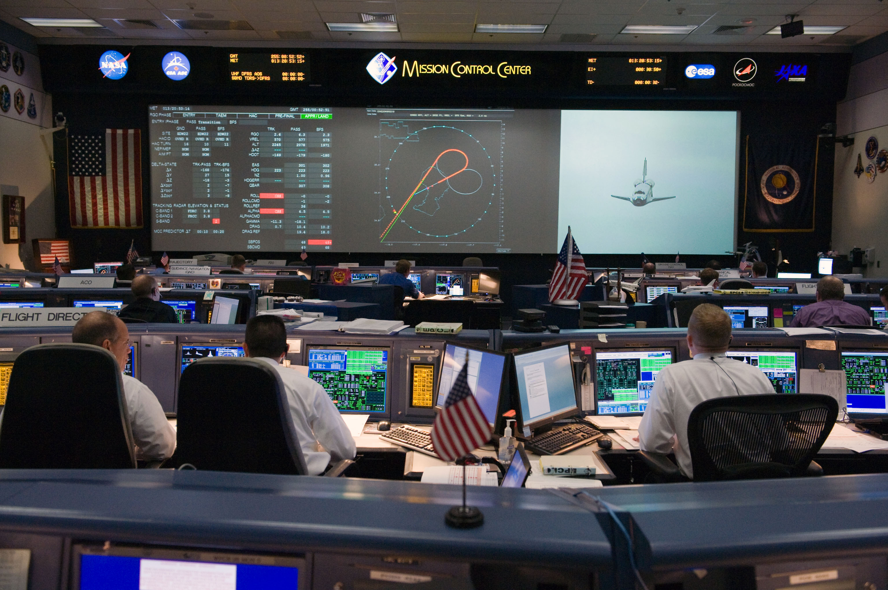 Flight controllers in the space shuttle flight control room in the Mission Control Center at NASA's Johnson Space Center watch the big screens during the landing of Space Shuttle Discovery (STS-128) at NASA's Dryden Flight Research Center at Edwards Air Force Base in California.